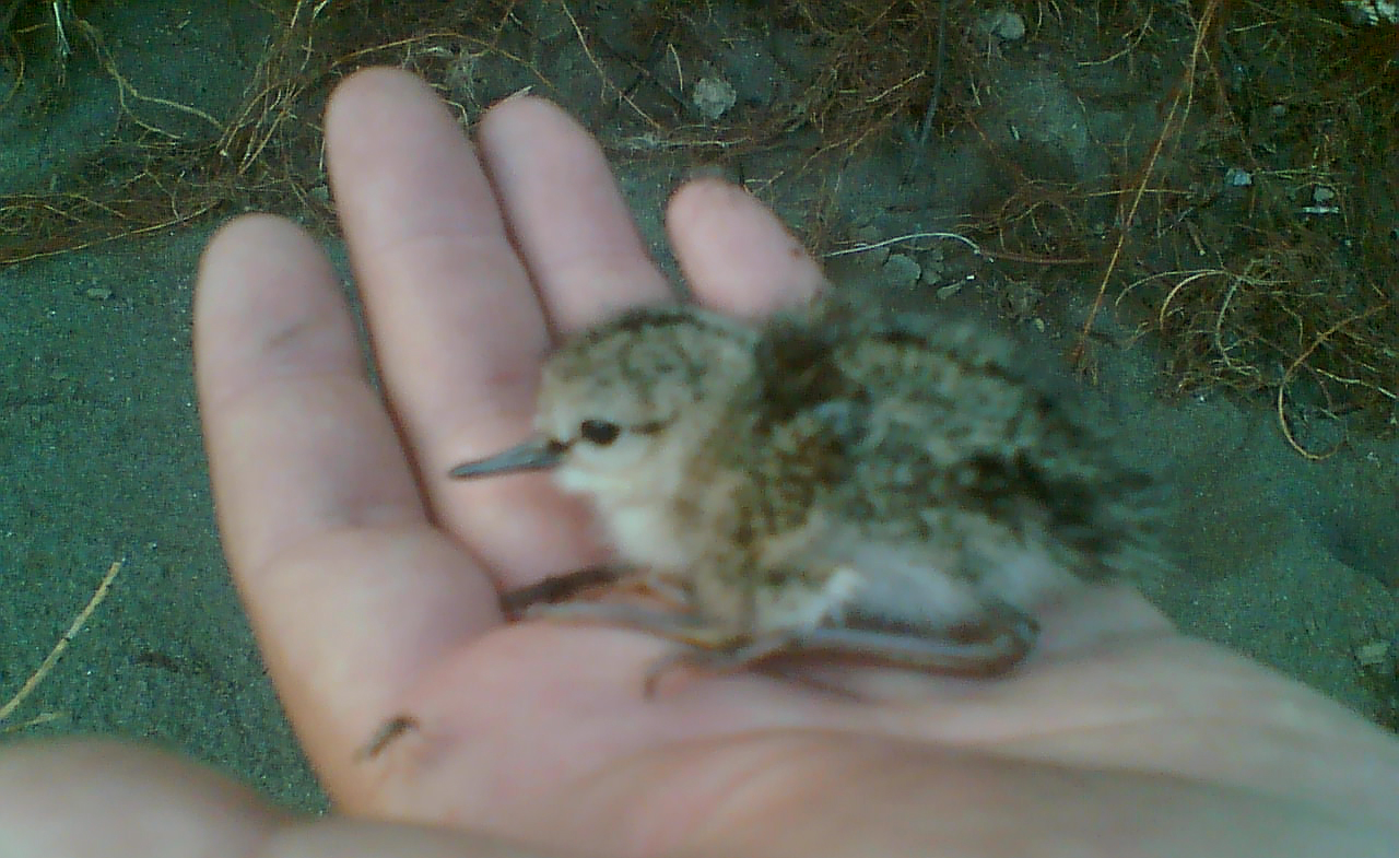 Nestling of Terek Sandpiper